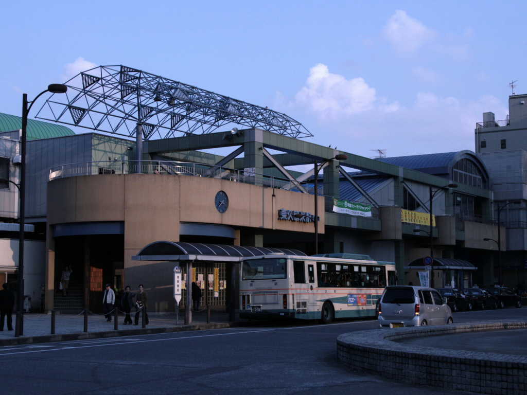 Seibu Ikebukuro Line Higashi-Kurume Station from the west. Photographed by User:To-emon on 5 November 2006